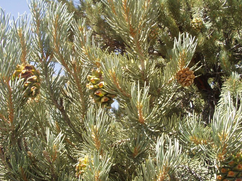 Closeup of Single-leaf Pinyon (Pinus monophylla), showing single leaves and immature cones. Tree is on west slope of Pah Rah Range at approx. 1500 m (5000 ft) elevation. At or near northwest limit of distribution.